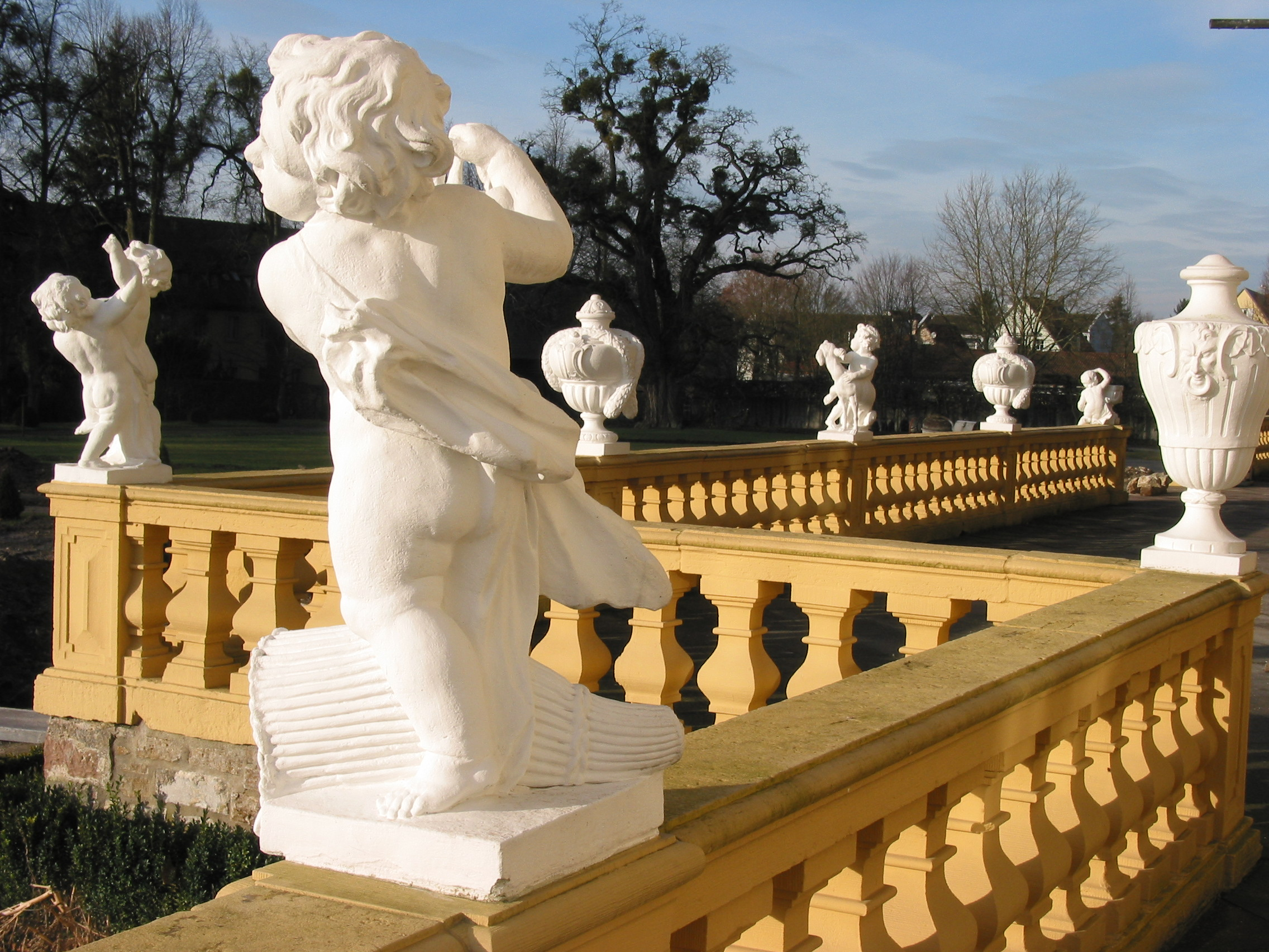 detail of castle Veitshöchheim near Würzburg